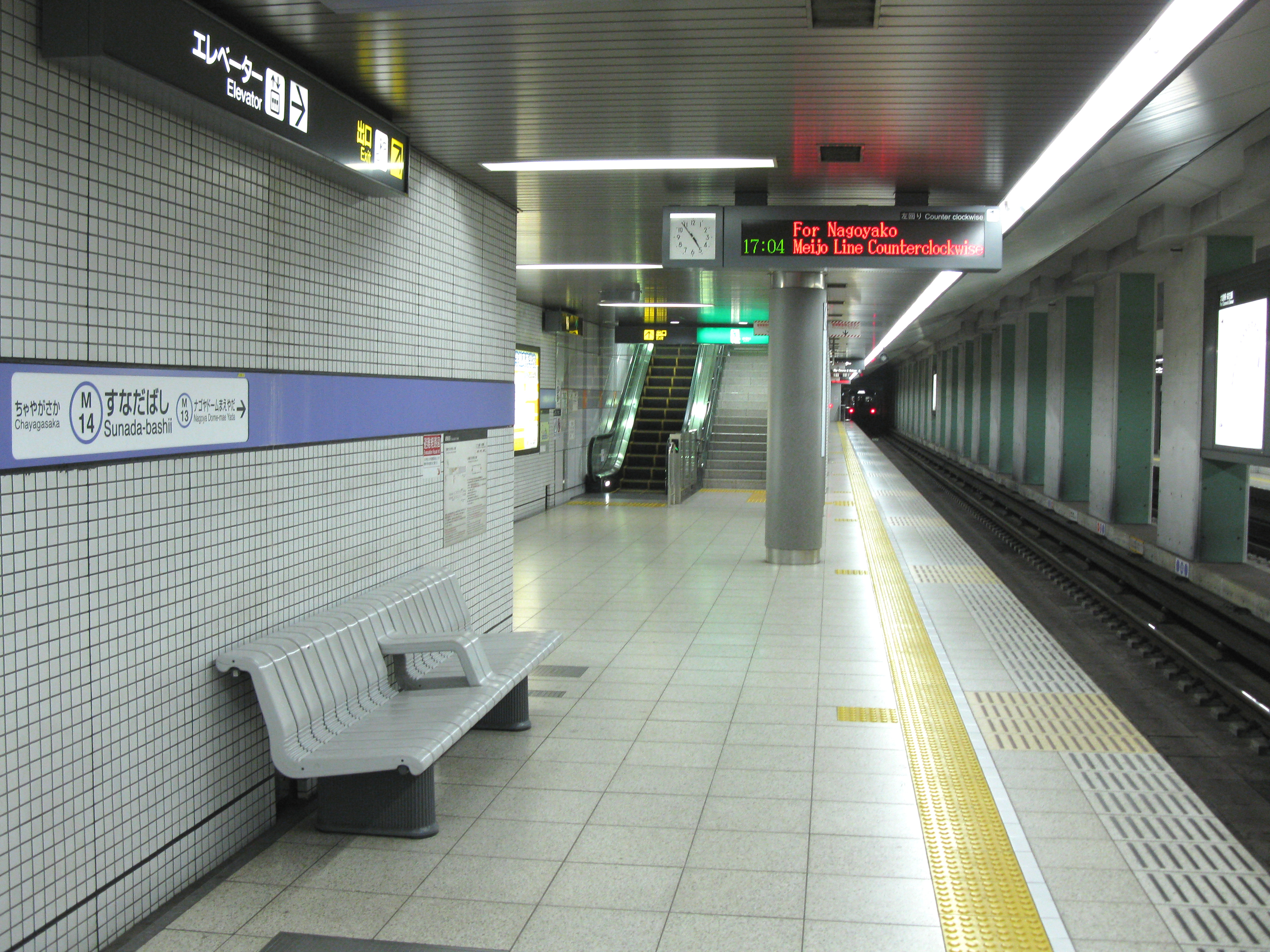 Sunadabashi Station platform (Nagoya Municipal Subway Meijō Line)